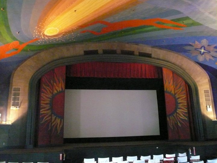 Overall view of the Cape Cinema, Dennis, MA, showing Rockwell Kent's mural designs